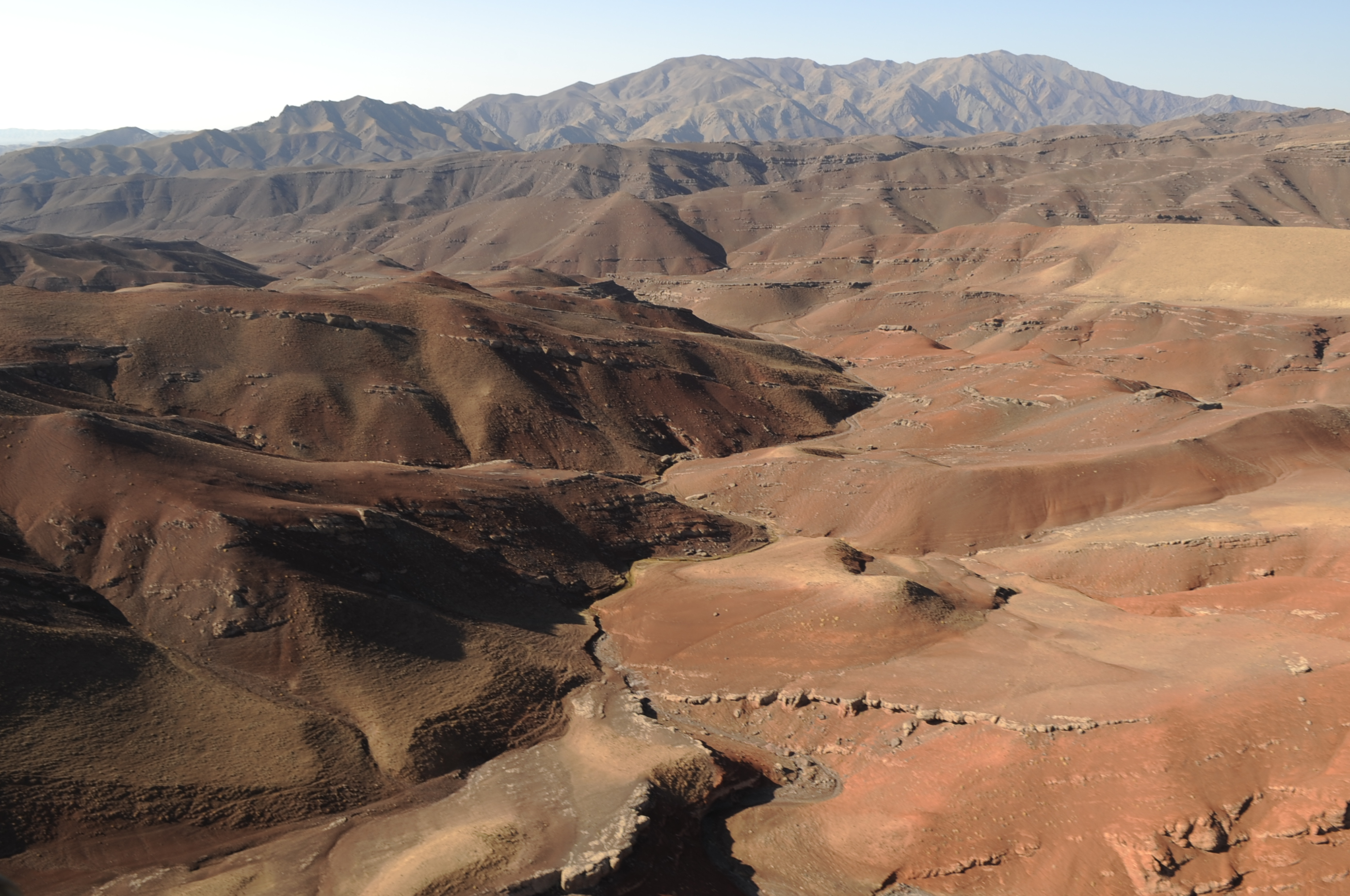 The following is the author's description of the photograph quoted directly from the photograph's Flickr page. "HERAT, Afghanistan--The view from a CH-47 Chinook helicopter during an International Security Assistance Force (ISAF)mission, Nov. 30. ISAF is assisting the Afghan government in extending and exercising its authority and influence across the country, creating the conditions for stabilization and reconstruction. (ISAF Photo by TSgt Laura K. Smith)(released) "